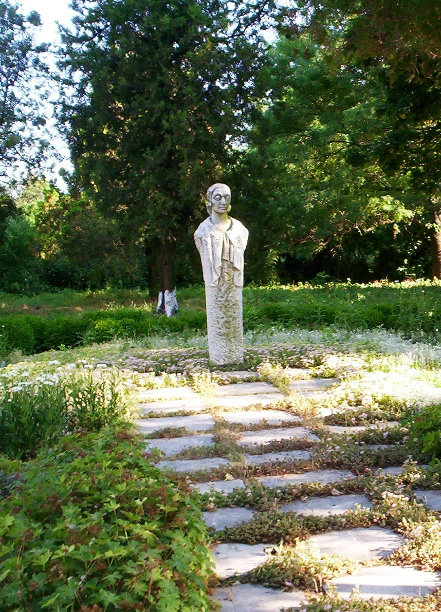 The monument to poet Dora Gabe, village Dabovik, Bulgaria